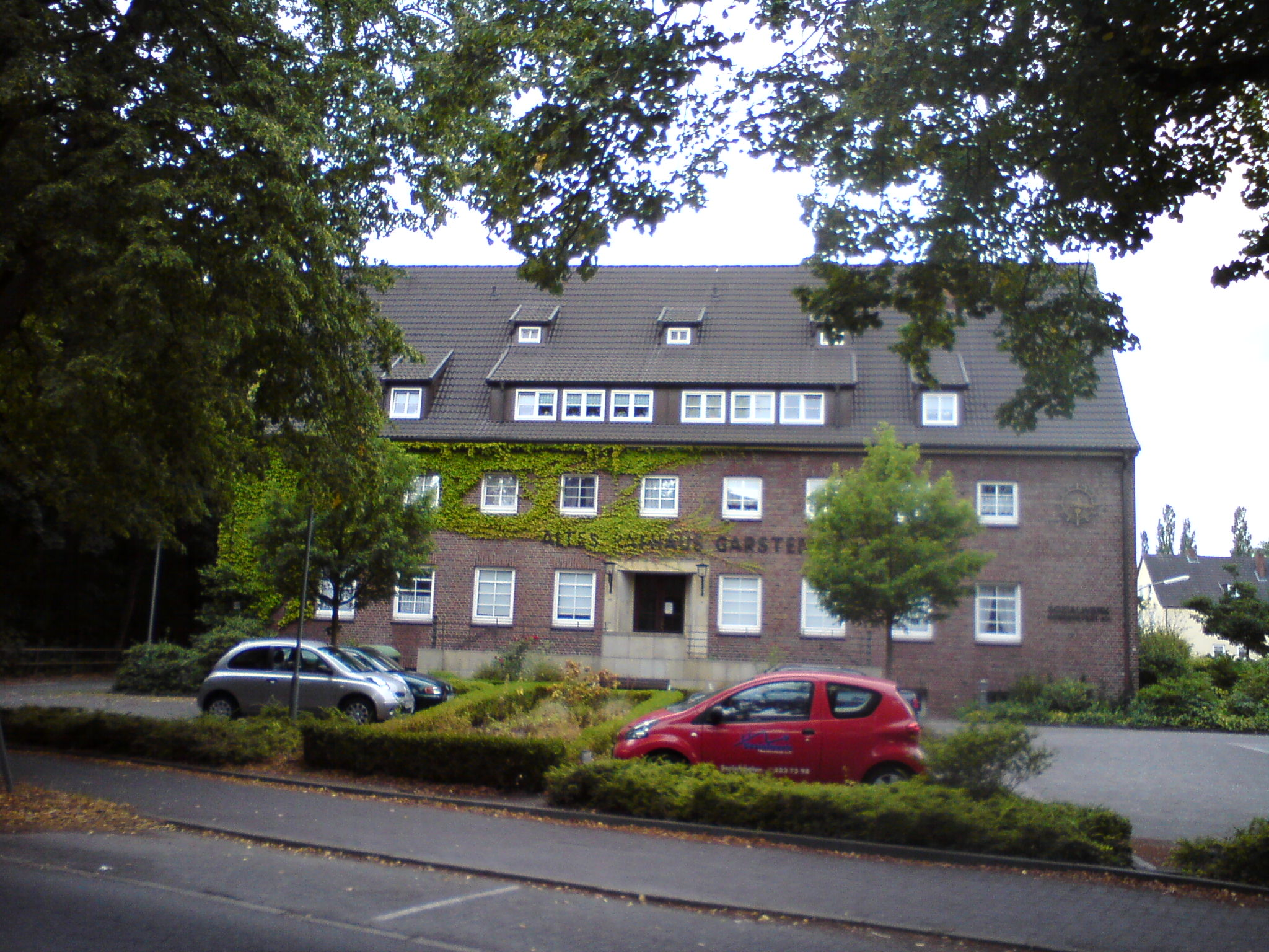 Norderstedt (Germany): Former town hall of Garstedt